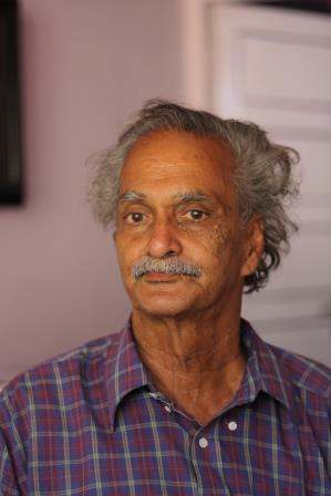 K P rao is the first person to put Indian languages in computers ಕನ್ನಡ: ಕೆ. ಪಿ. ರಾವ್ ಅವರು ಭಾರತೀಯ ಭಾಷಾ ಗಣಕ ಪಿತಾಮಹ ಎಂದೇ ಕರೆಯಲ್ಪಡುತ್ತಾರೆ